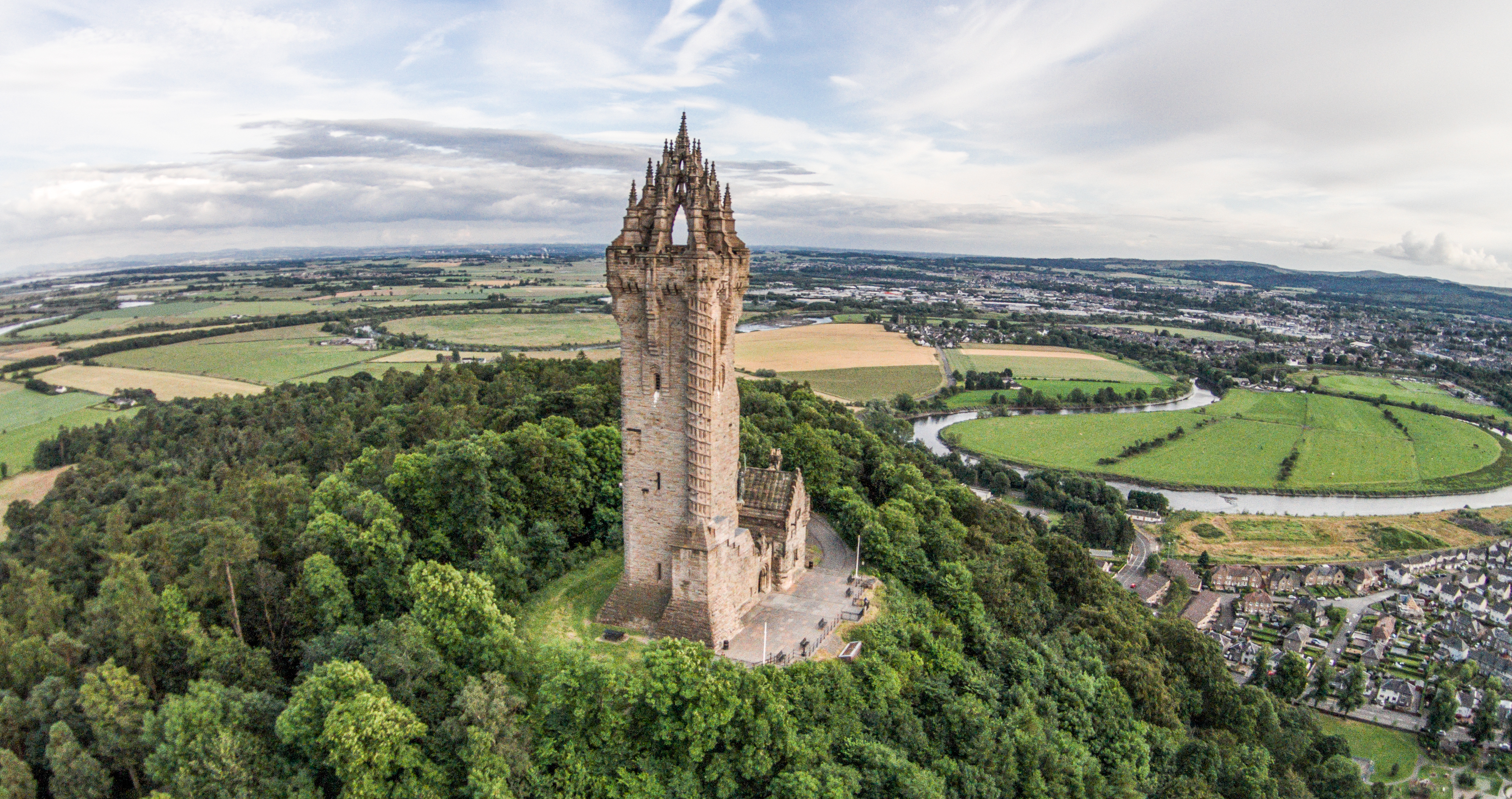 The National Wallace Monument is a tower standing on the summit of Abbey Craig, a hilltop near Stirling in Scotland. It commemorates Sir William Wallace, a 13th-century Scottish hero